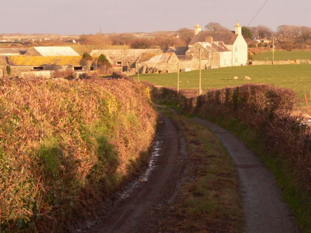 Bodennog, Capel Gwyn, Anglesey. Looking towards Bodennog, Capel Gwyn, Anglesey.